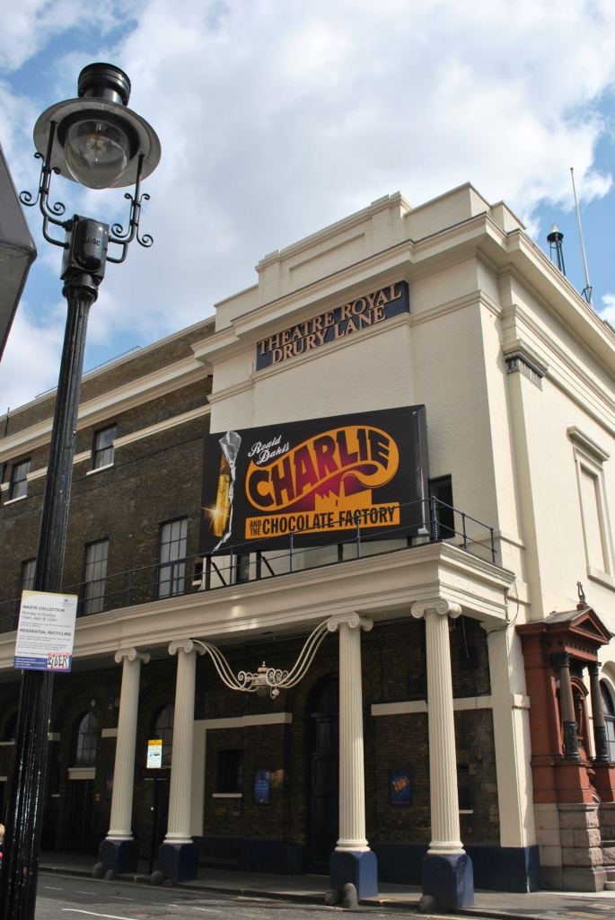 Theatre Royal, Drury Lane and attached Sir Augustus Harris Memorial Drinking Fountain